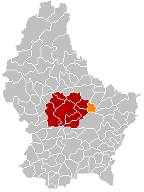 Own edit of Kanton MerschLocatie.png